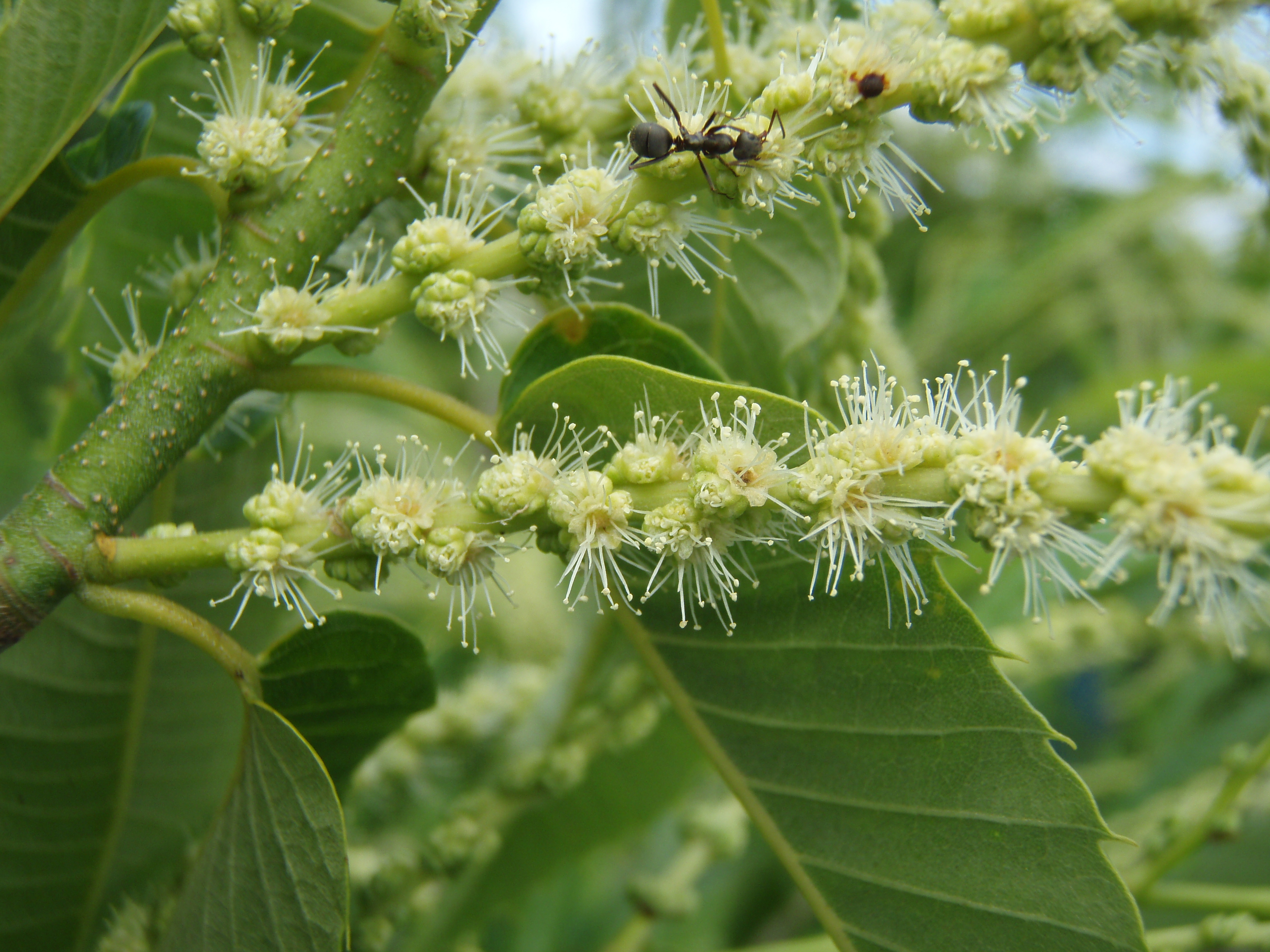 Japanese Chestnut, male flowers (Nagano pref. Japan)